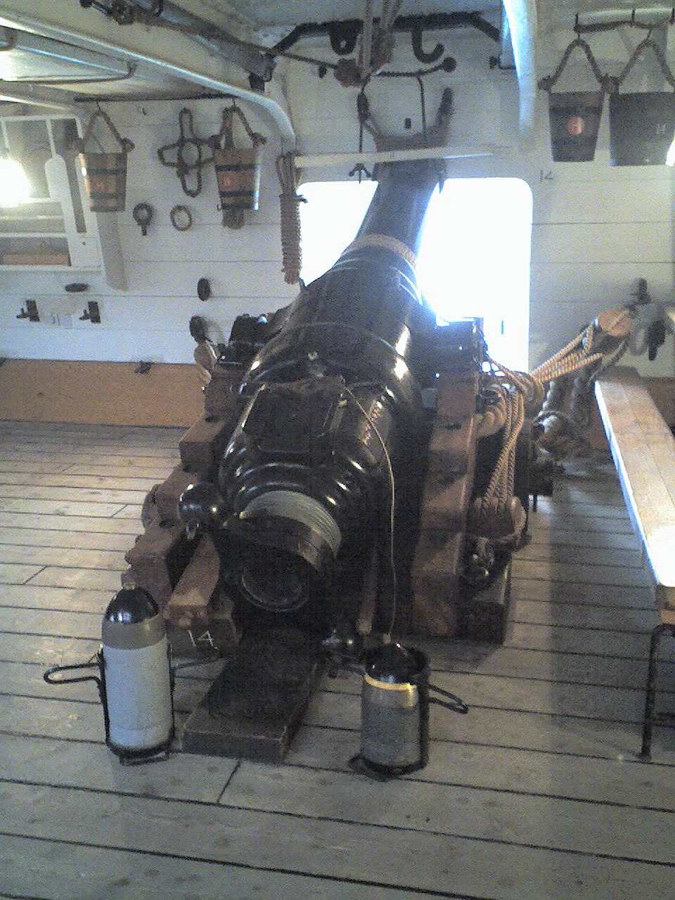 Fibreglass replica of 110-pdr Armstrong breech loading gun on HMS Warrior in Portsmouth Historic Dockyard, Hampshire, UK. Originally uploaded to en Wikipedia as Image:HMS Warrior 110lb BL.png by The Land 19 February 2007